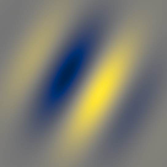 A 2D plot of the Gabor filter function for θ = -30°, σ = 0.5, γ = λ = 1. Uses the cividis colormap.